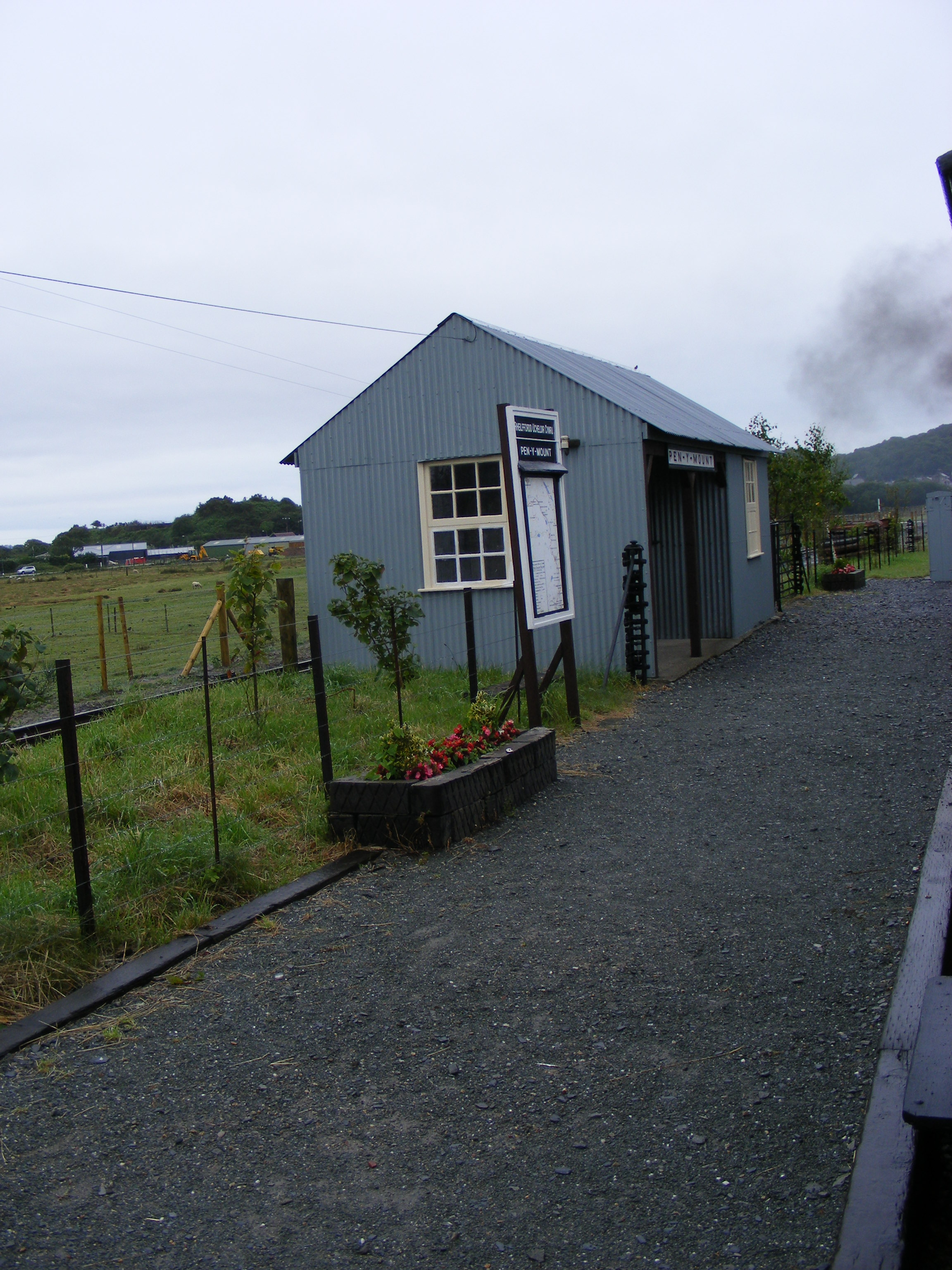 Pen-y-Mount station. Based on the original station at Nantmor